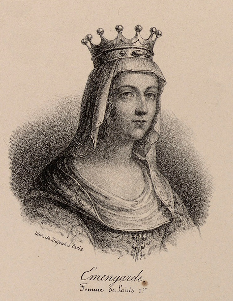 Ermengarde of Hesbaye (c.778-818), wife of Louis the Pious